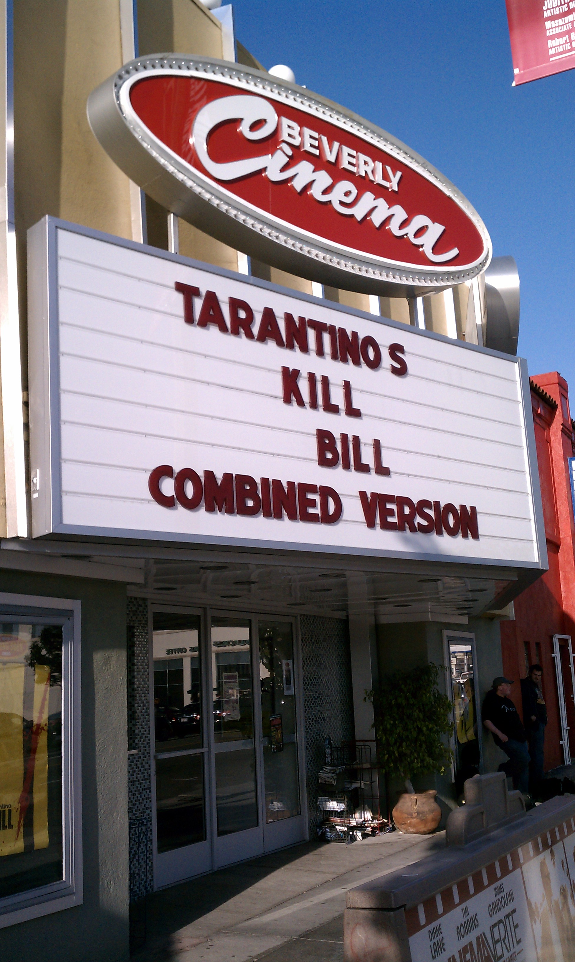 For 1 week only, Quentin Tarantino screened the combined Kill Bill 1 & 2 films together, complete with the French subtitles, just as it was shown at Cannes. This sold out show was an amazing experience with a packed house of fans who truly appreciate the moviegoing experience. And I can think of no better theater to experience it in than the New Beverly Cinema in LA.